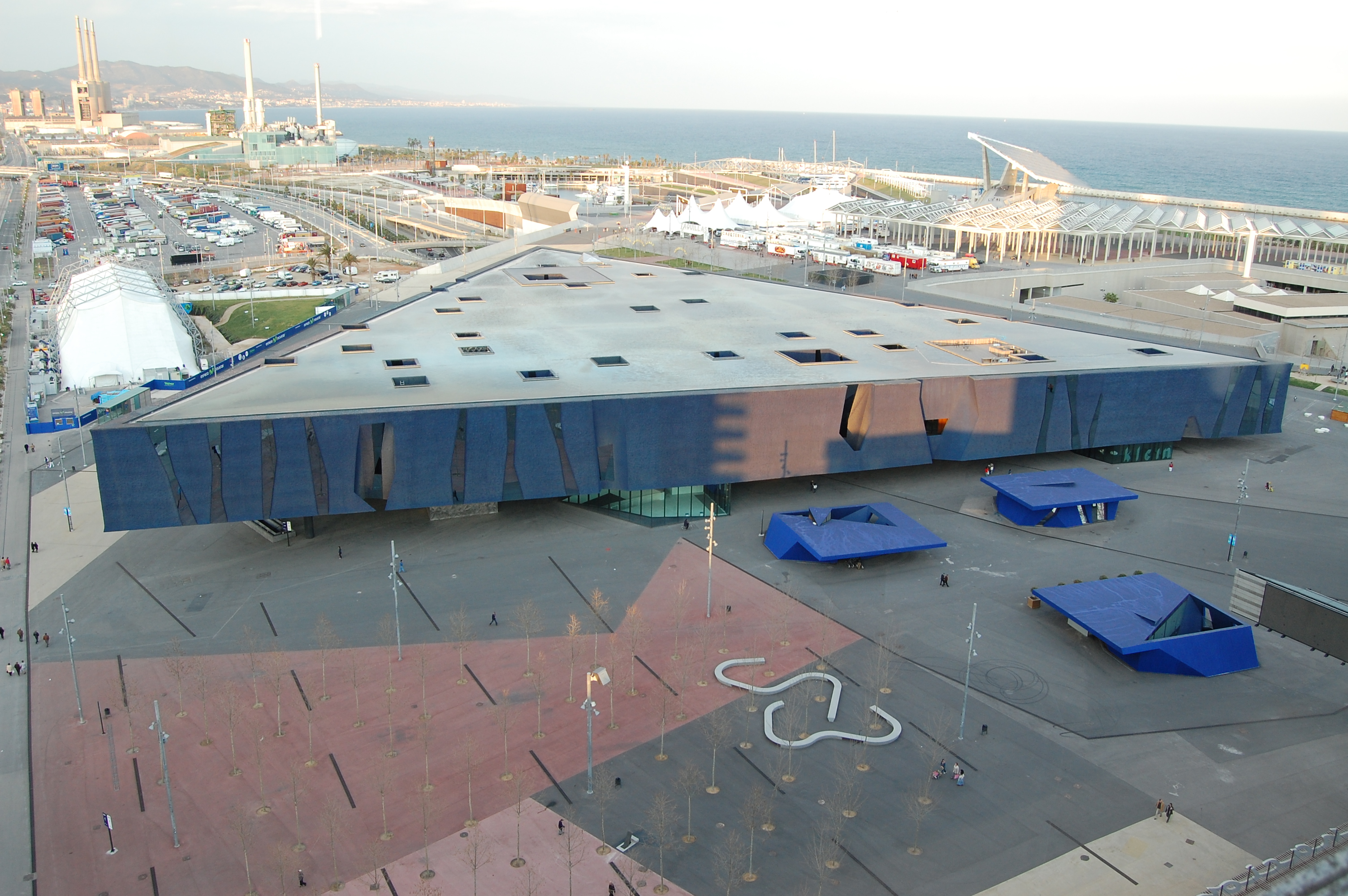 Edifici Fòrum a Barcelona, vist des de l'Hotel AC Forum.View from the window - Hotel AC Barcelona